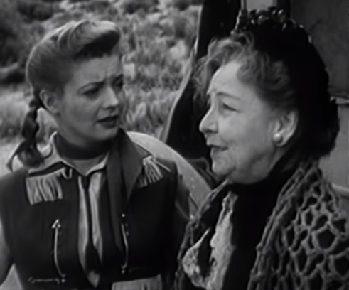 Gail Davis (left) & Mary Young in the TV series Annie Oakley, episode Annie and the Silver Ace - cropped screenshot